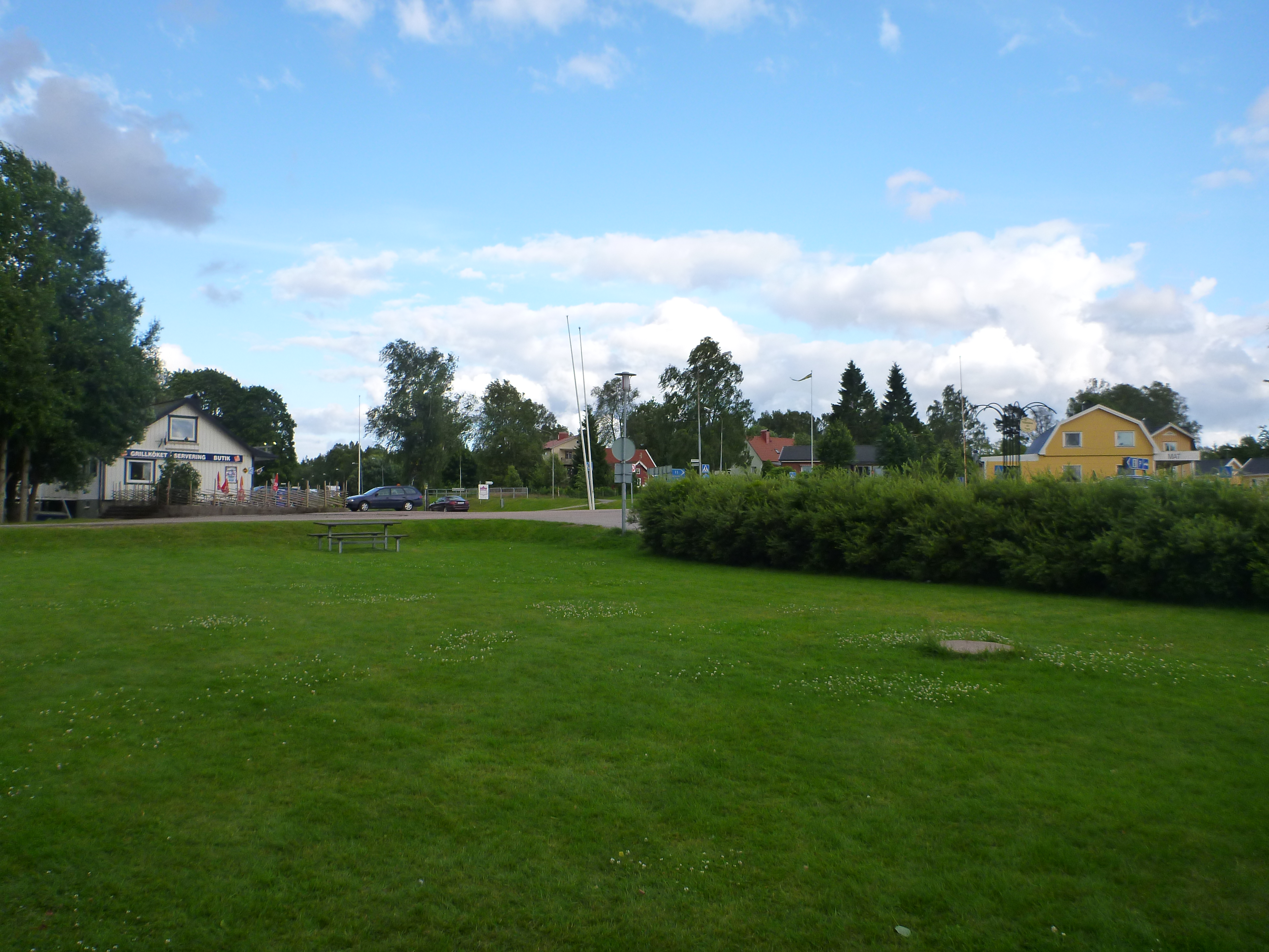 The village Fegen in Hallands län in Schweden